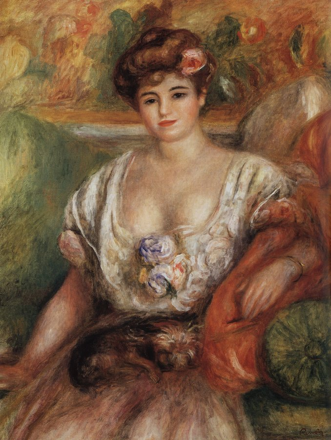 Misia Sert, 1872-1950, born Maria Zofia Godebska, Polish-French pianist, daughter of sculptor Cyprian (Cyprien) Godebski